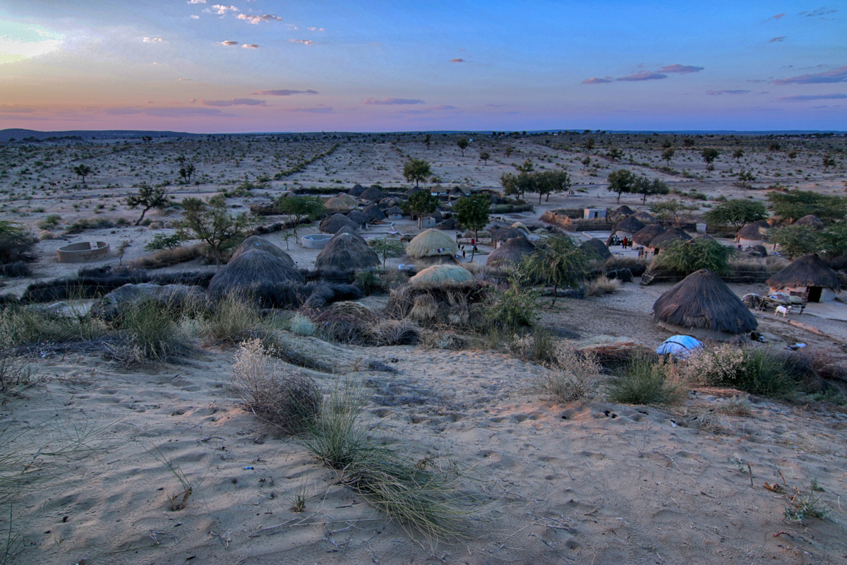 The classical Tharparkar desert image; Sindh, Pakistan